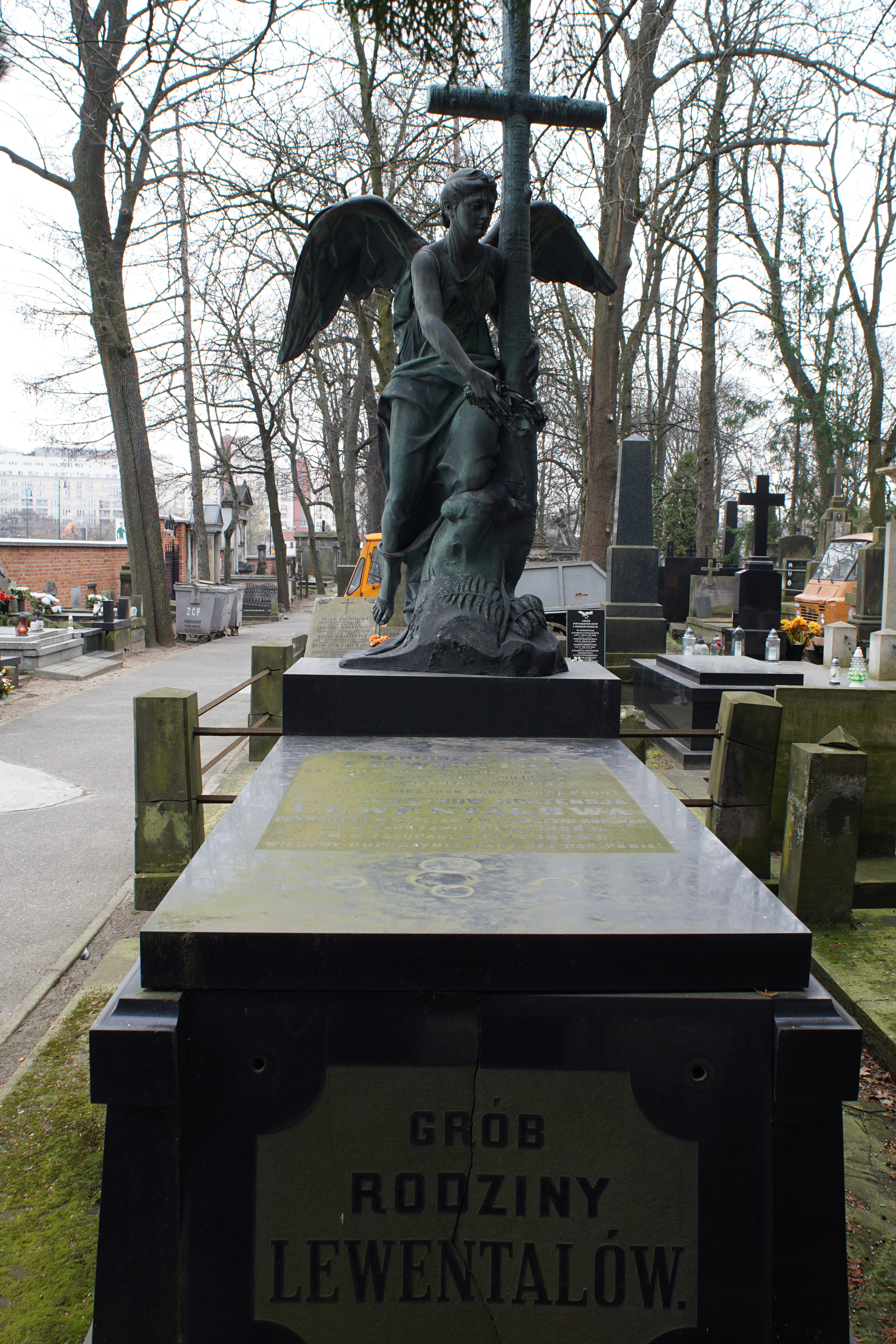 The grave of Franciszek Salezy Lewental at the Powązki Cemetery (section 7, row 4, grave 1, 2)